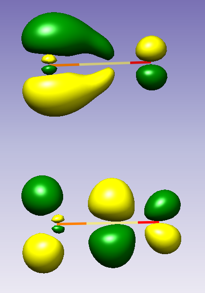 A graphic showing the HOMO (above) and LUMO (below) of the PCO anion.